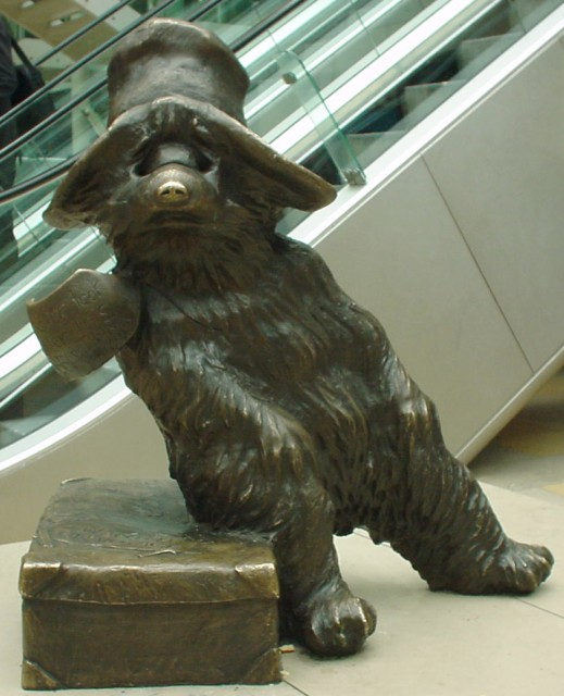 Paddington Bear at Paddington Station